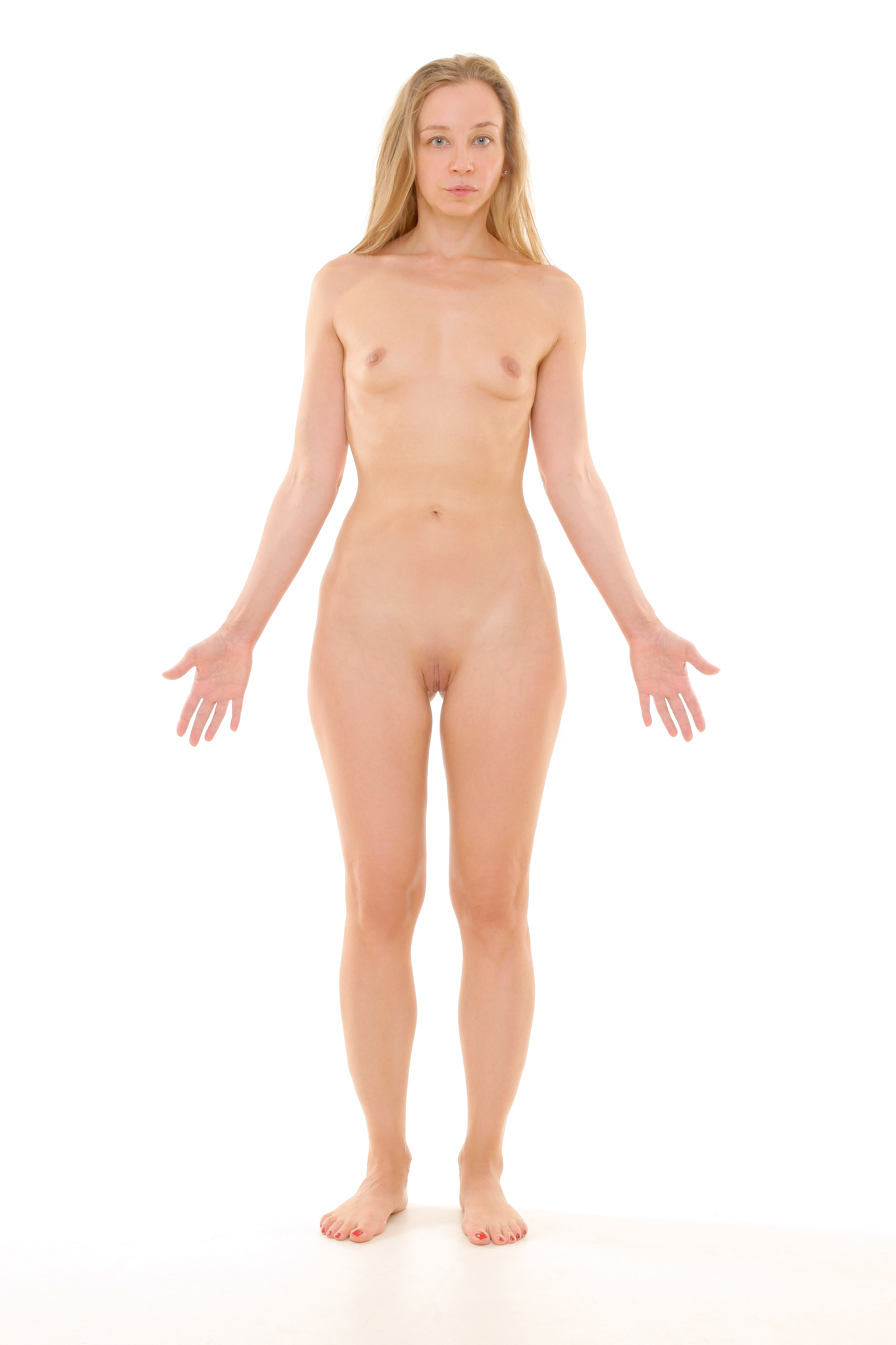 Naked female human body.